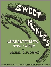 Sweet Pickles, 1907